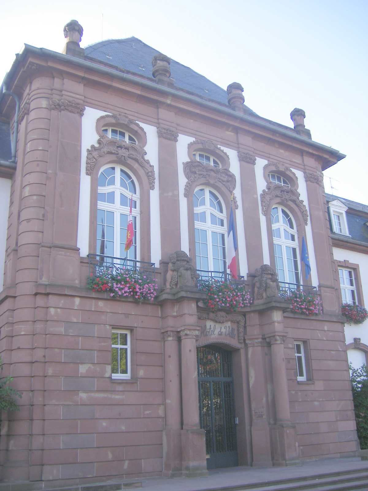 Haguenau - Town hall